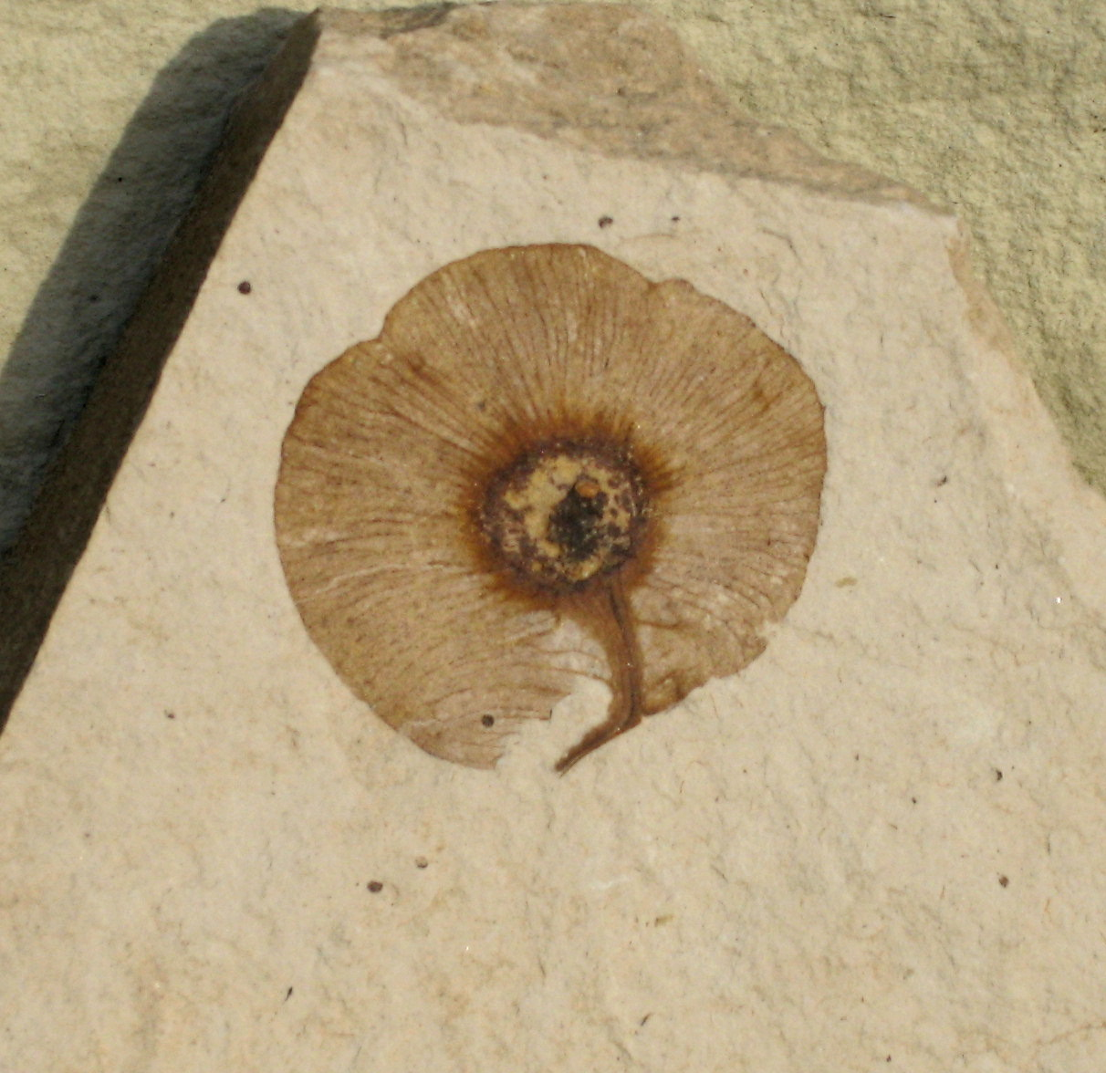 A 1.9cm wide Dipteronia brownii samara. Klondike Mountain Formation, Republic, Ferry County, Washington, USA, Eocene, Ypresian, 49 million years old. Stonerose Interpretive Center Collection #